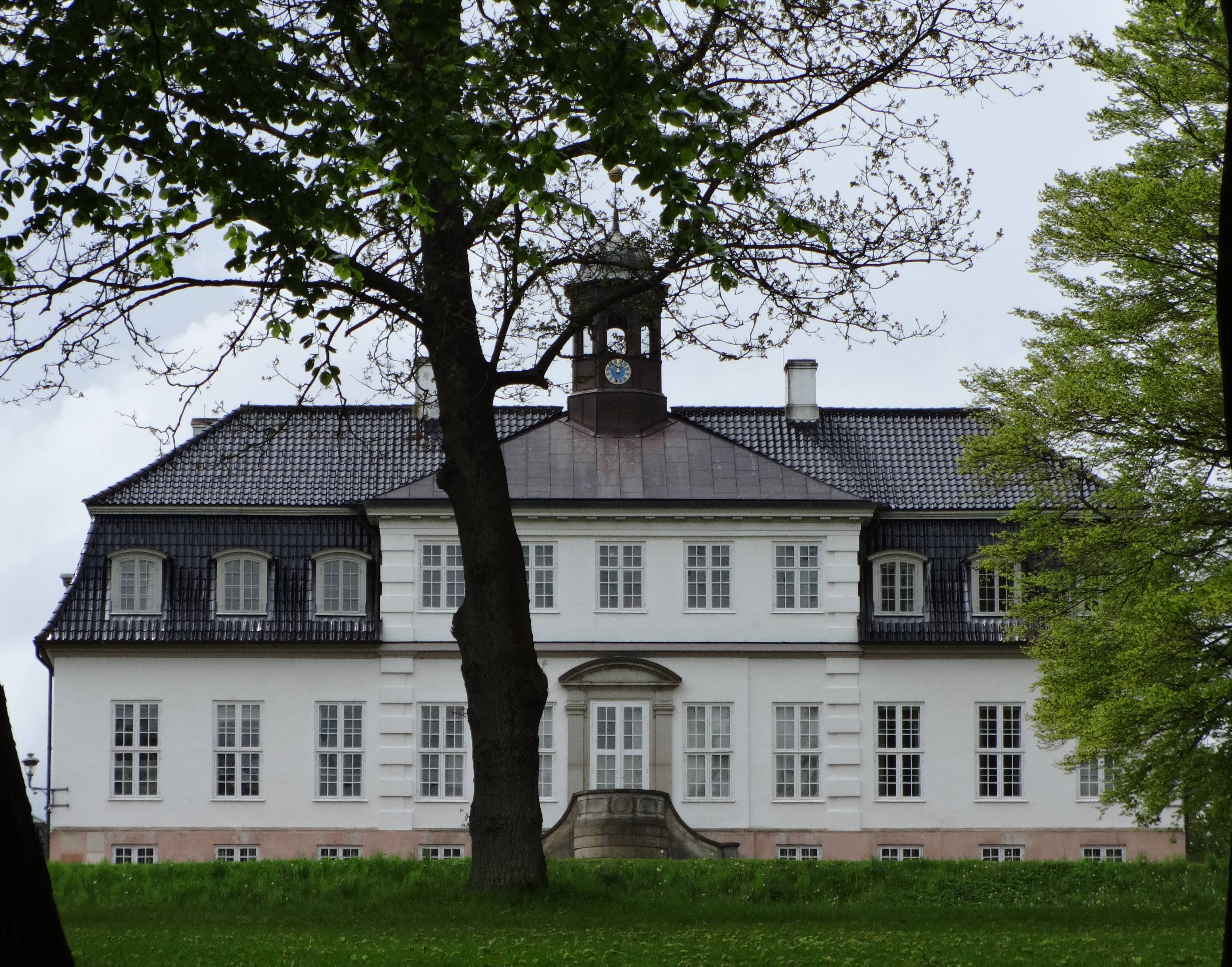 Sorgenfri Palace